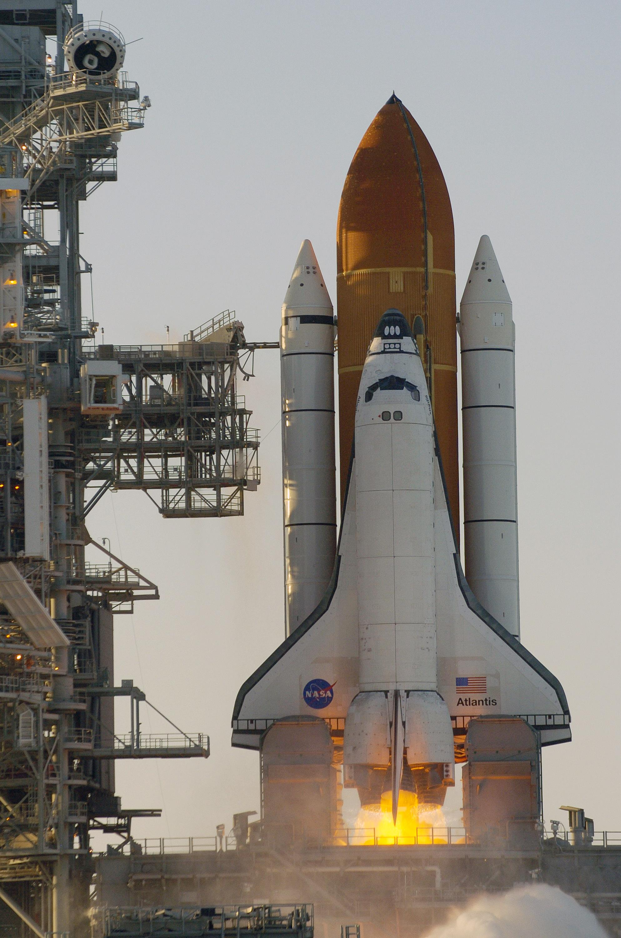 Ignation of the tree main engines of Space Shuttle Atlantis for STS-117 flight.